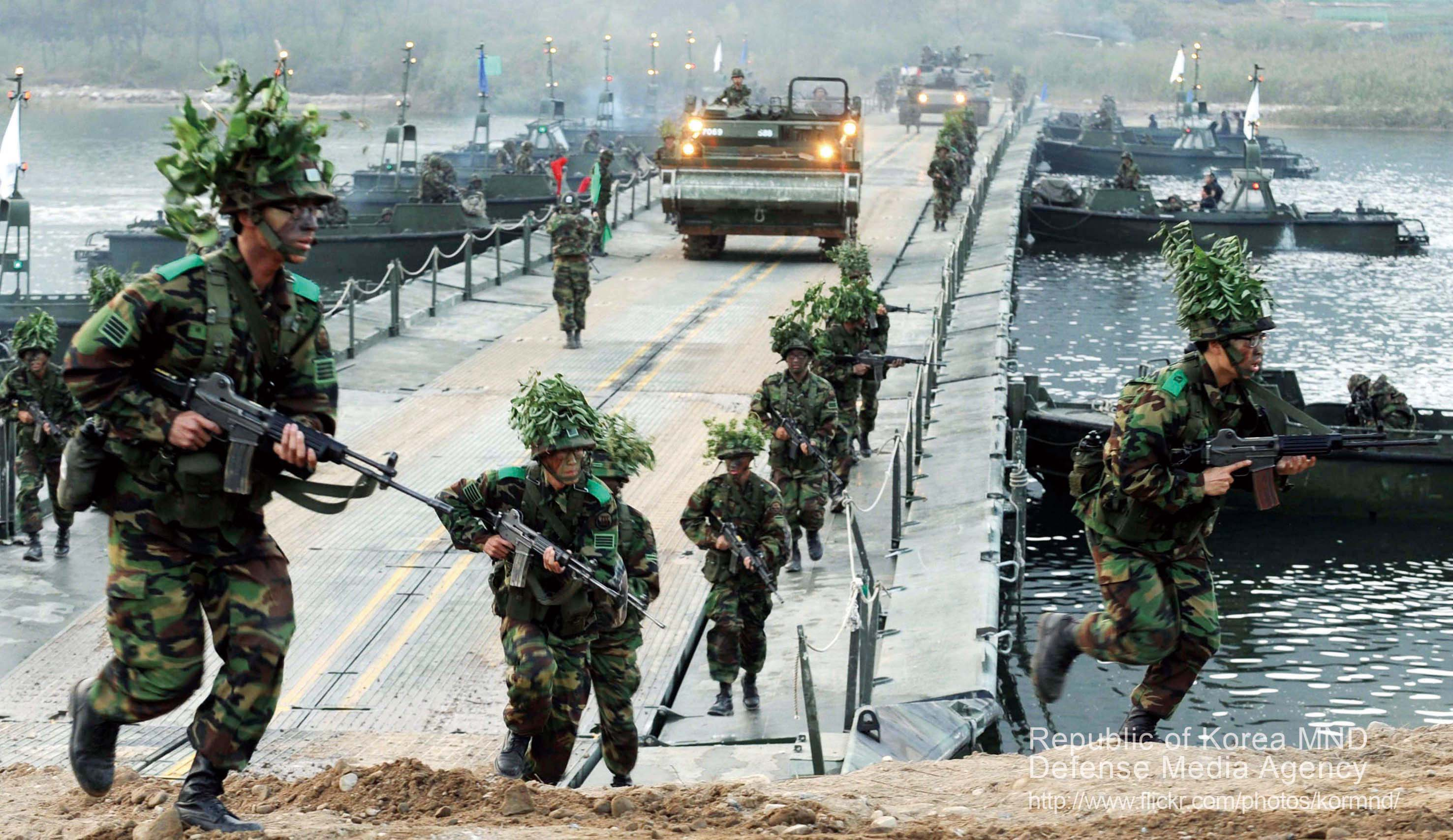 2010 국방화보 Rep. of Korea, Defense Photo Magazine 육군3군단은 국민들에게 선진화된 강한 육군의 화력과 작전 능력을 선보이기 위해 제병 협동 도하 공격작전을 펼쳤다. 3rd Army Corps is executed joint river-crossing exercise to show strong fire power and operation ability of ROK Army to the people.